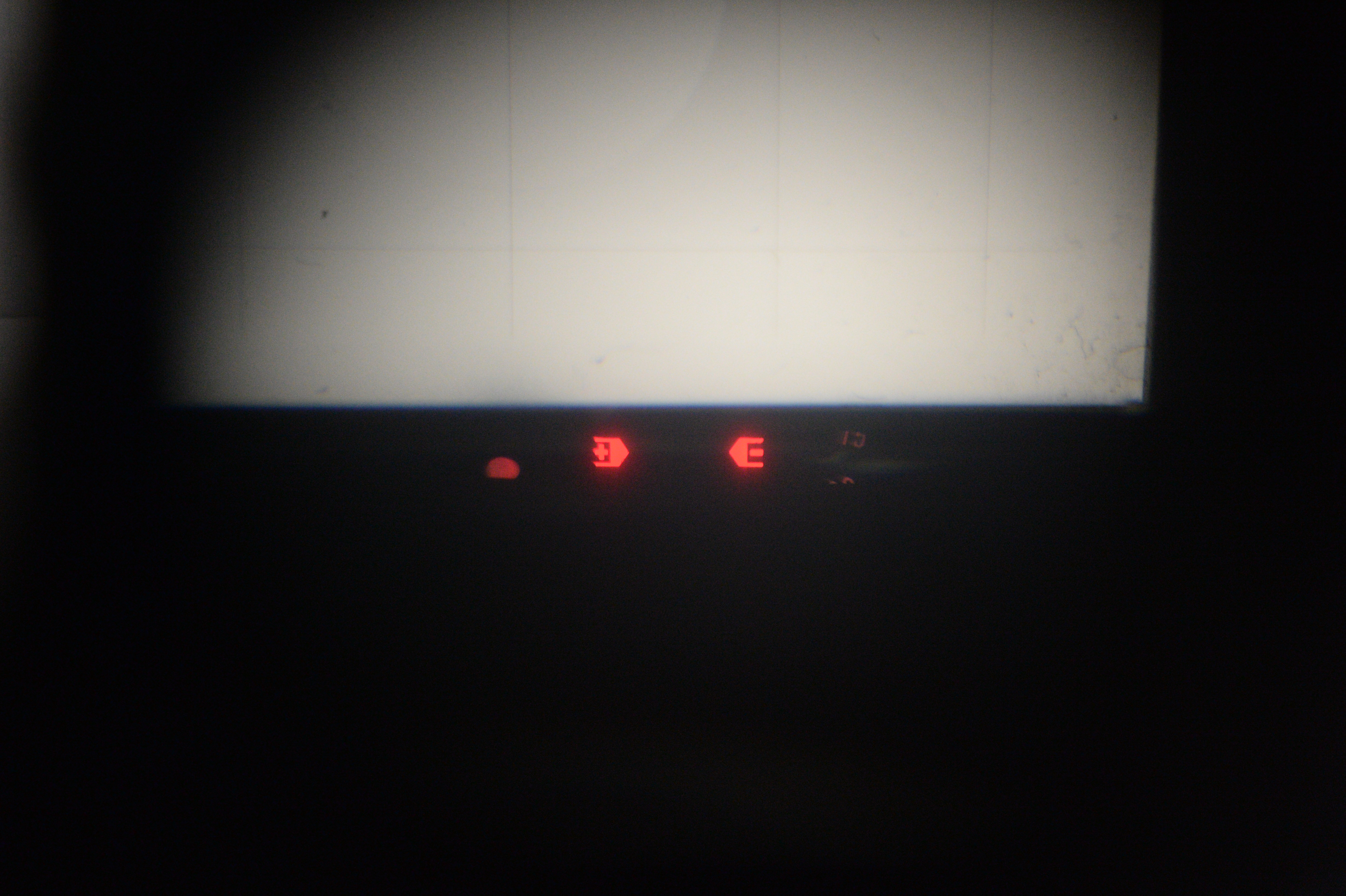 In viewfinder DP-2